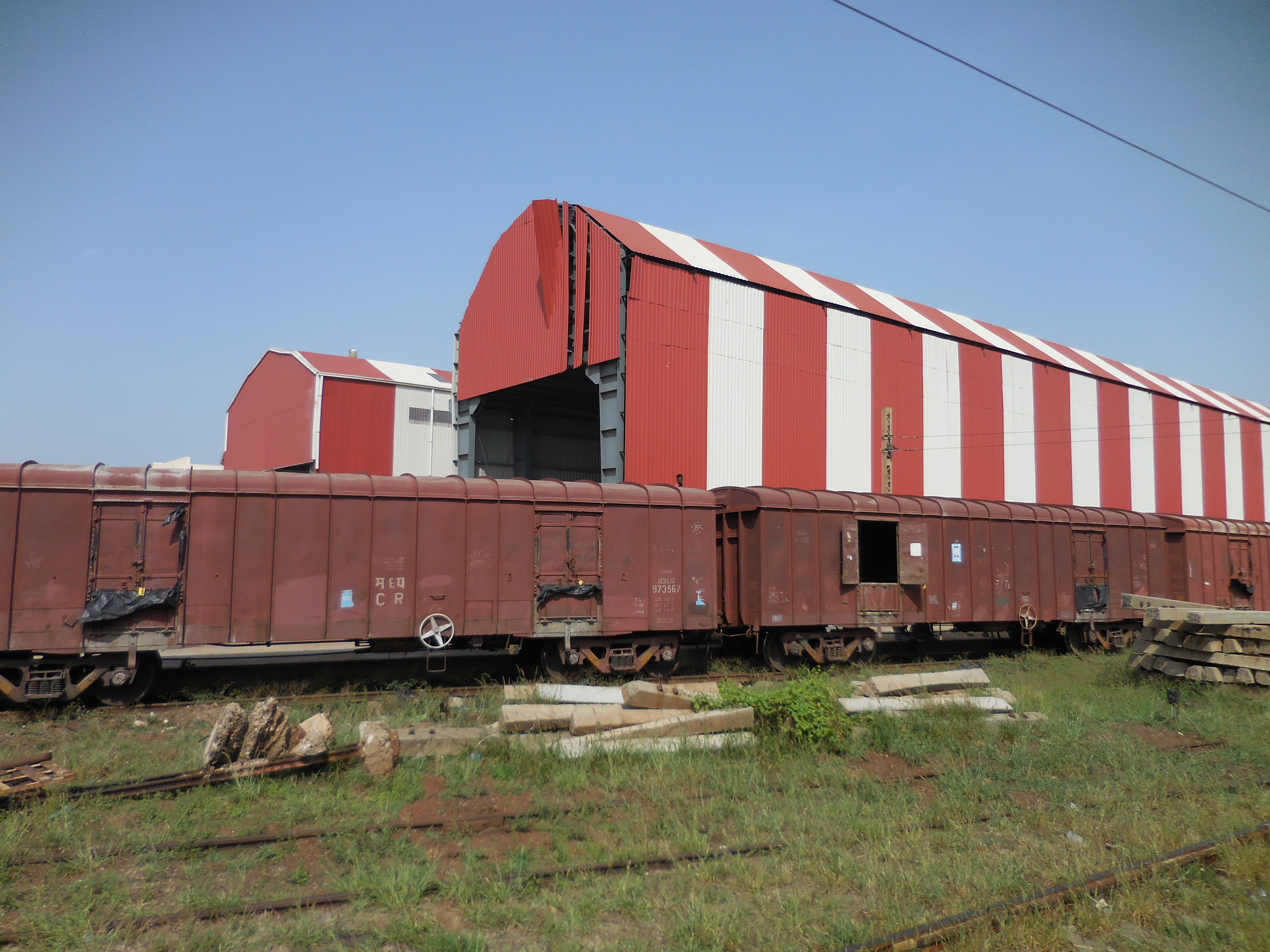 Loco shed at Royapuram railway station, Chennai, taken on 21-Jun-2014 at 9:20 am